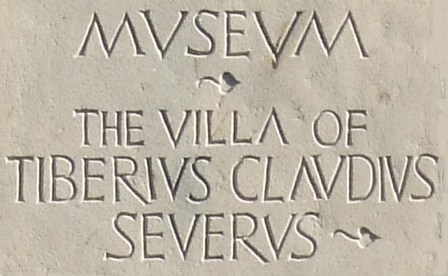 Piddington Roman Villa - museum sign